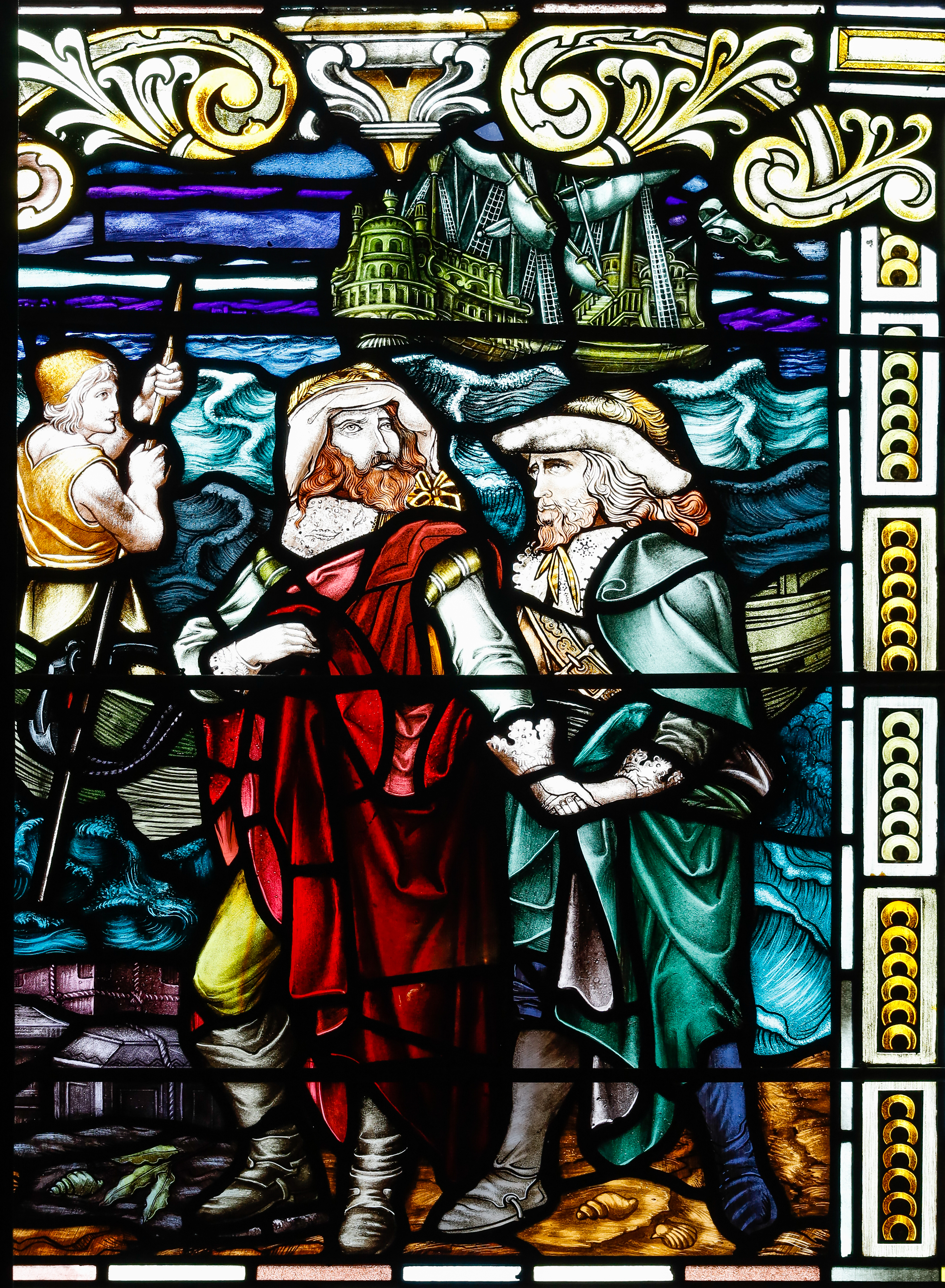 Leftmost main panel of the stained glass in the bay window of the Main Hall, titled “Sir Henry Docwra landed at Culmore 16th April 1600 A.D.”.